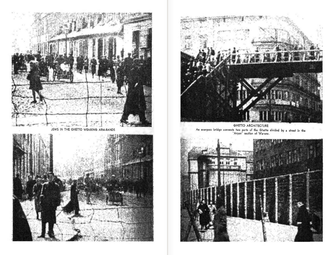 The Black Book of Polish Jewry, a 400-page report about the progress of the Holocaust in Poland published in 1943 by the American Federation for Polish Jews in cooperation with the Association of Jewish Refugees and Immigrants from Poland. It was compiled by Jacob Apenszlak with Jacob Kenner, Isaac Lewin and Moses Polakiewicz, and released by Roy Publishers of New York with Introduction by Ignacy Schwarzbart from the National Council of the Polish Republic. Plates inserted between pages 128 and 129 illustrating Part One. Chapter 8. Extermination (p. 167 in PDF)